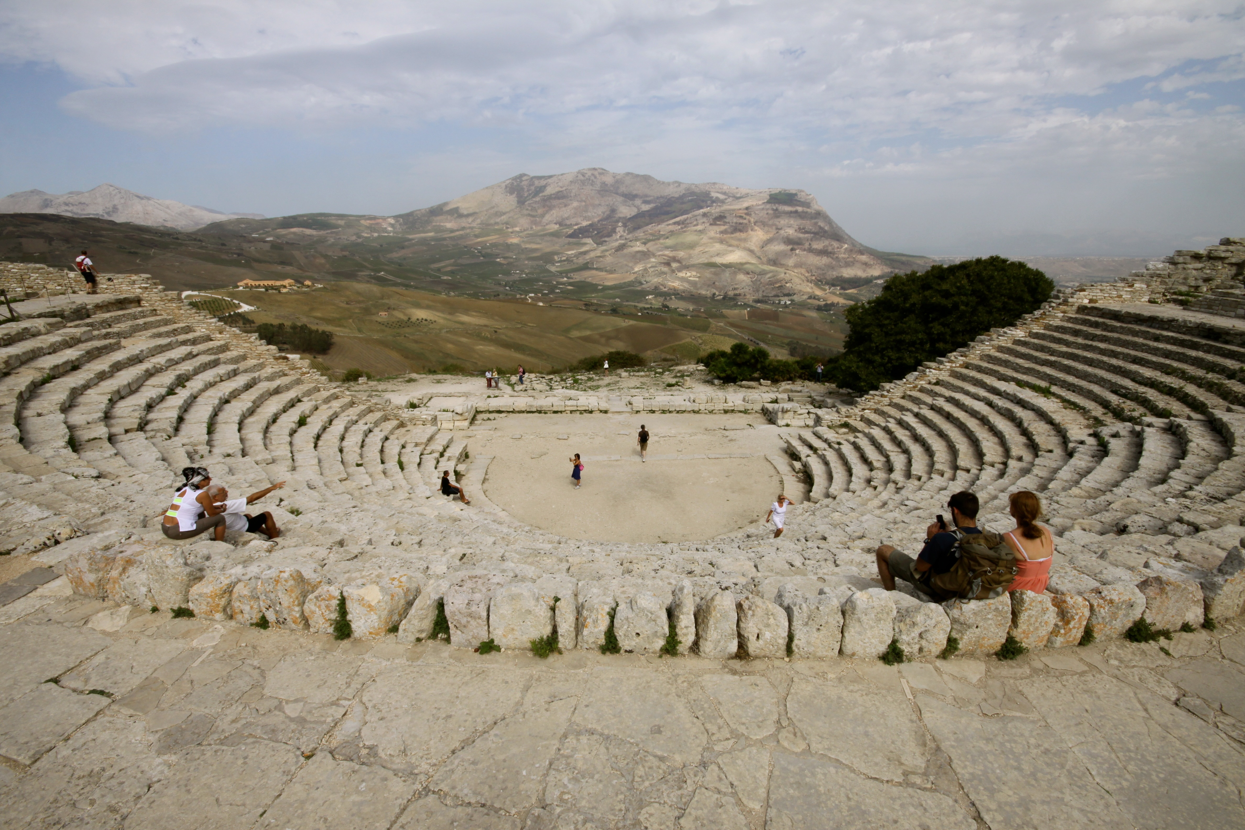 Ancient Greek theatre (Segesta)